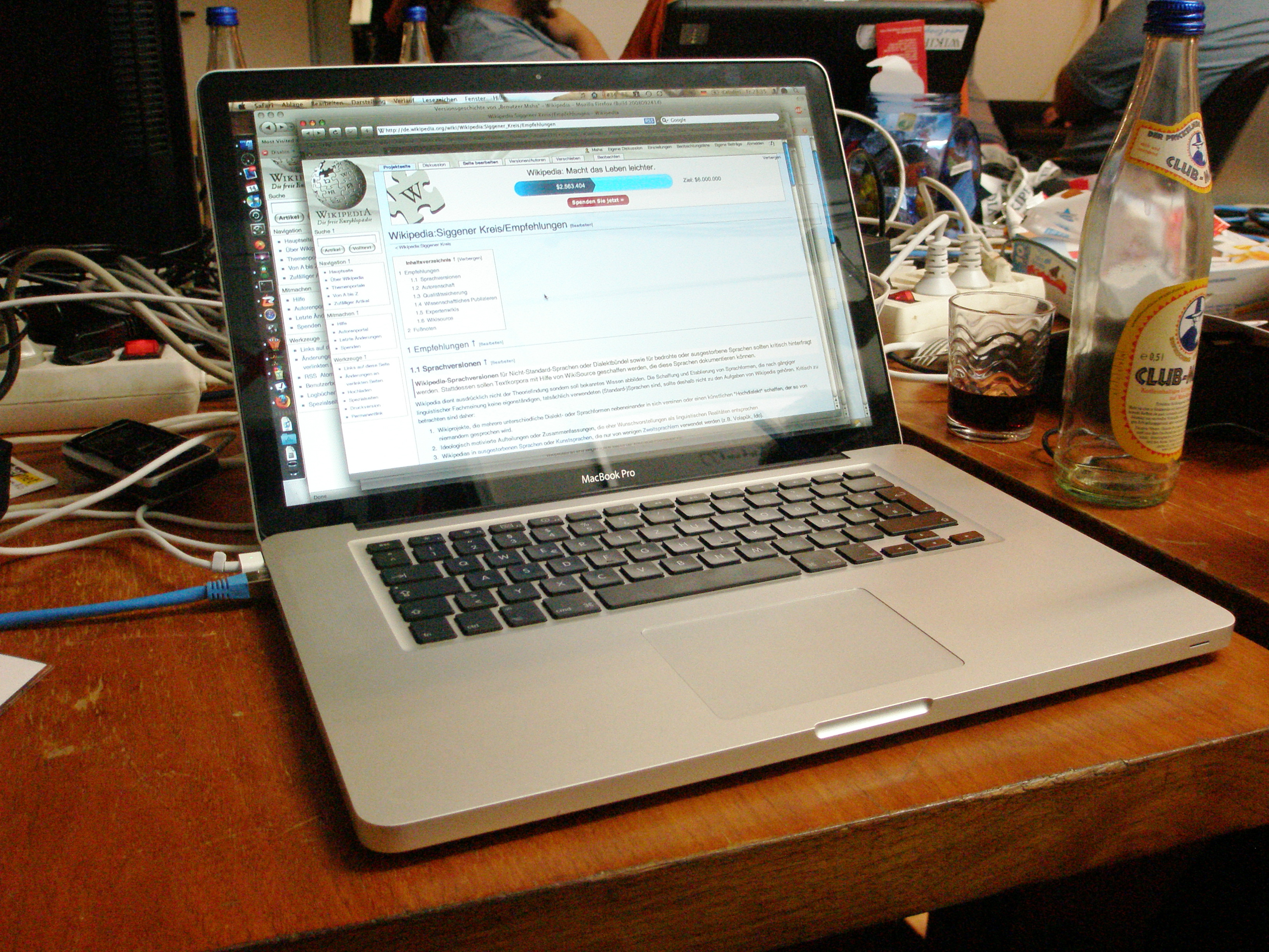 Unibody MacBook Pro